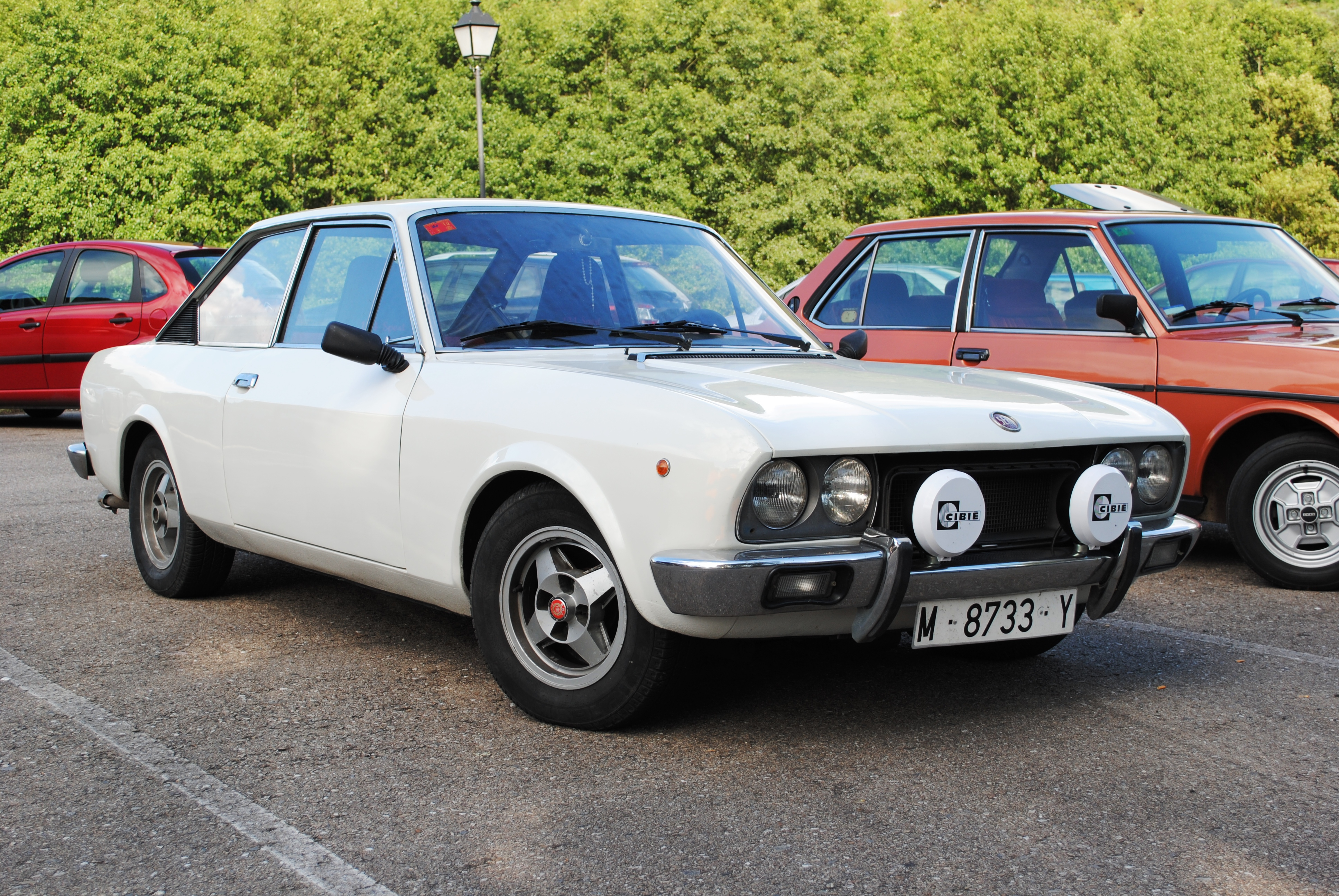 See title.